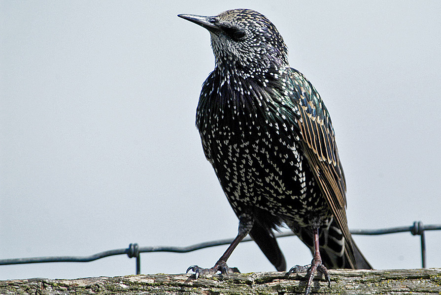 Starling